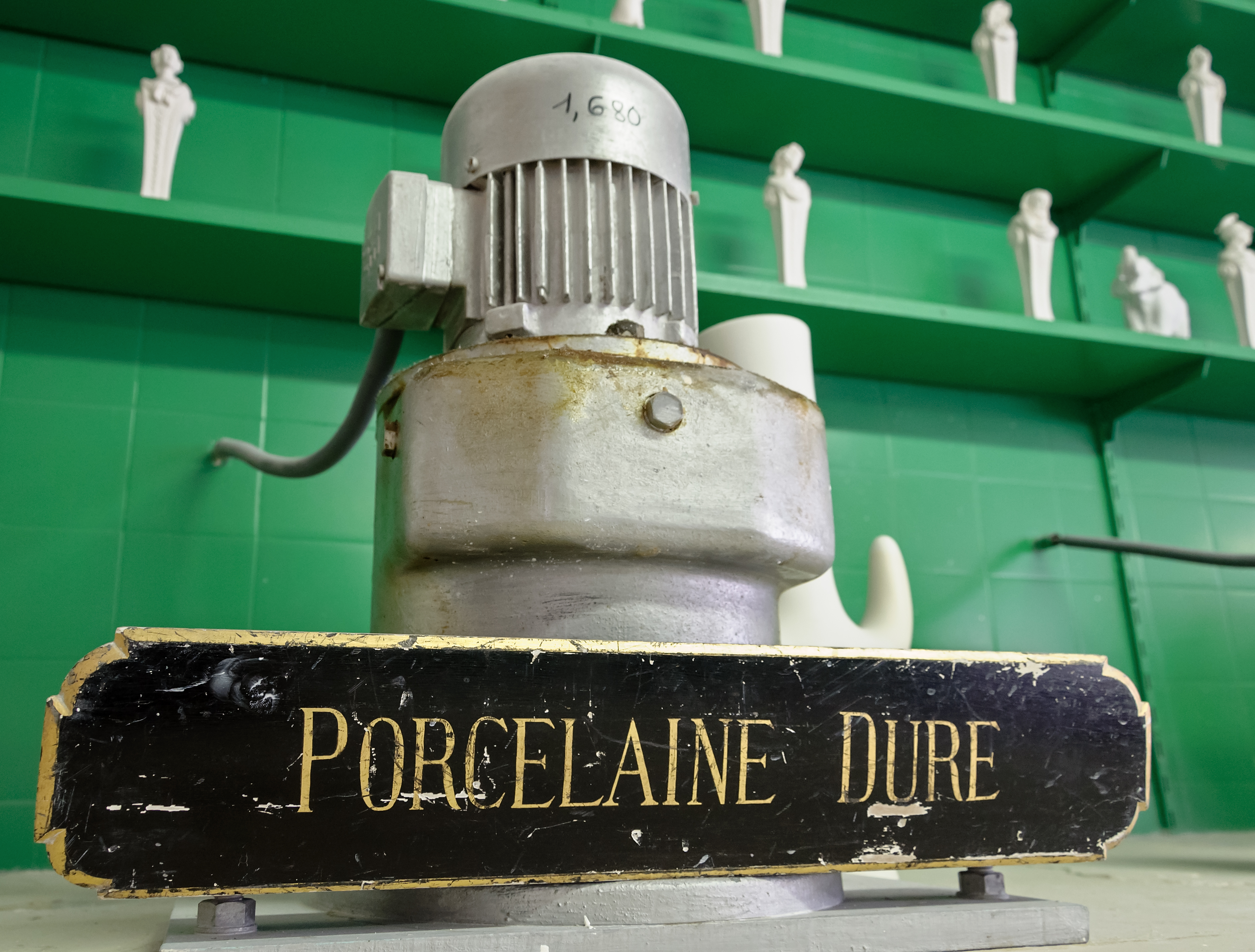 Small-scale casting (slipcasting) workshop of the manufacture nationale de Sèvres.